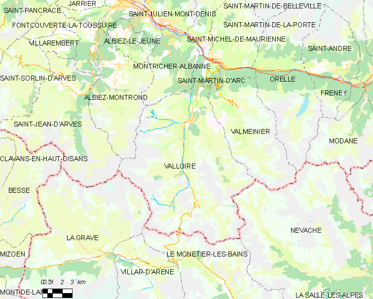 Map of French municipality Valloire